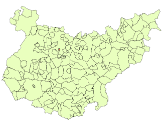 Calamonte, spanish municipality in the province of Badajoz, Extremadura.